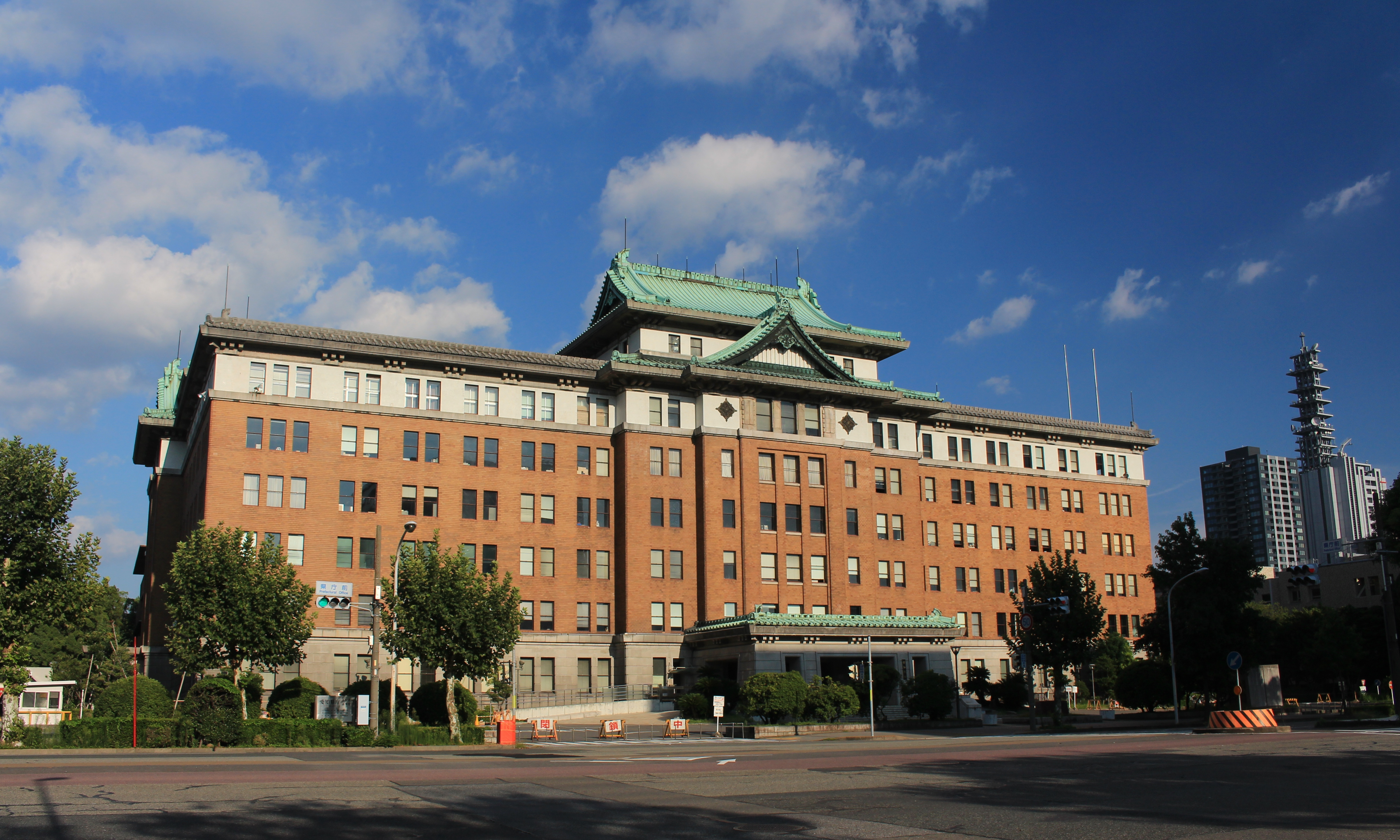 Aichi Prefectural Office Main Building, in Nagoya, Aichi prefecture, Japan.